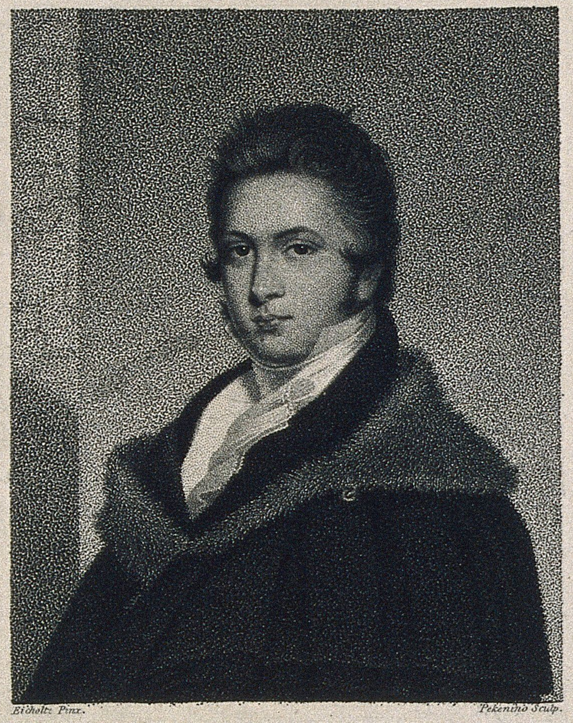 Portrait of Richard Harlan (1796-1843), half-length, left pose, full face, engraved by Michele Pekenino after a painting by Jacob Eichholtz, The United States National Library of Medicine collection NLM Unique ID: 101417795 NLM Image ID: B013872